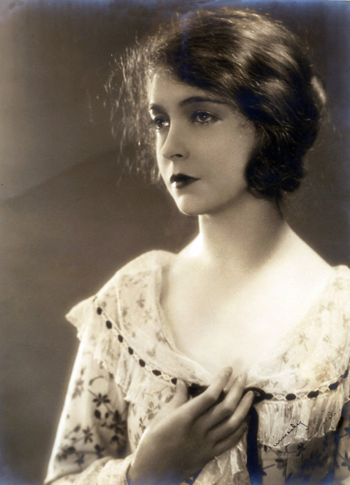 Lillian Gish